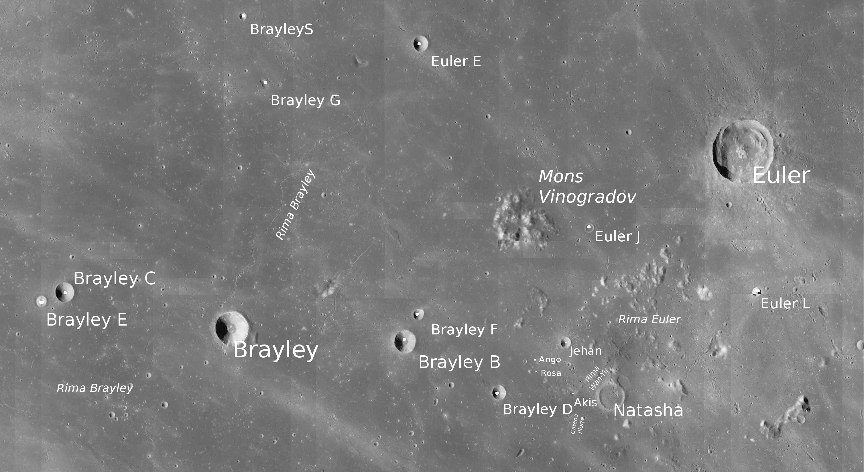 Craters Brayley and Euler (detail of LRO - WAC global moon mosaic)